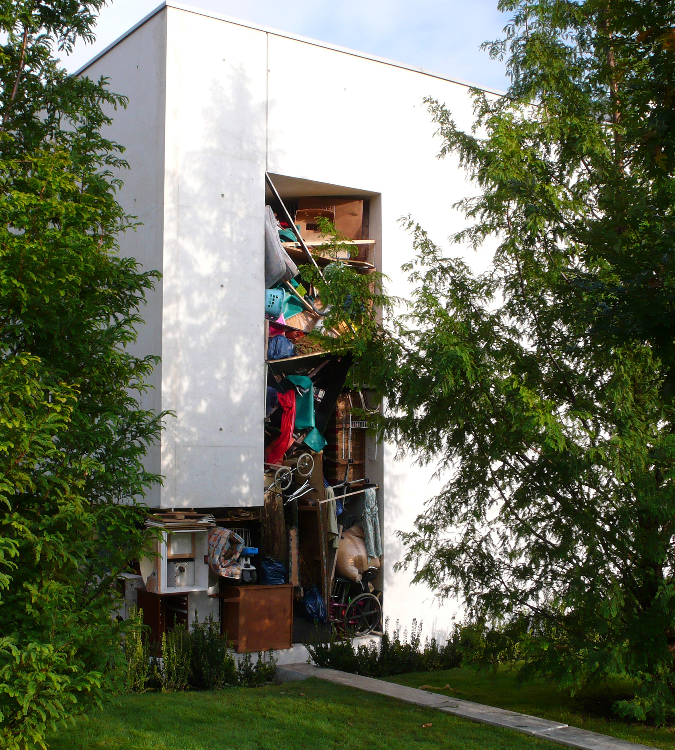 temporarily installed ensemble of found objects by Eric Hattan, September 27/28/29 2010, MAC/VAL, Vitry-sur-Seine